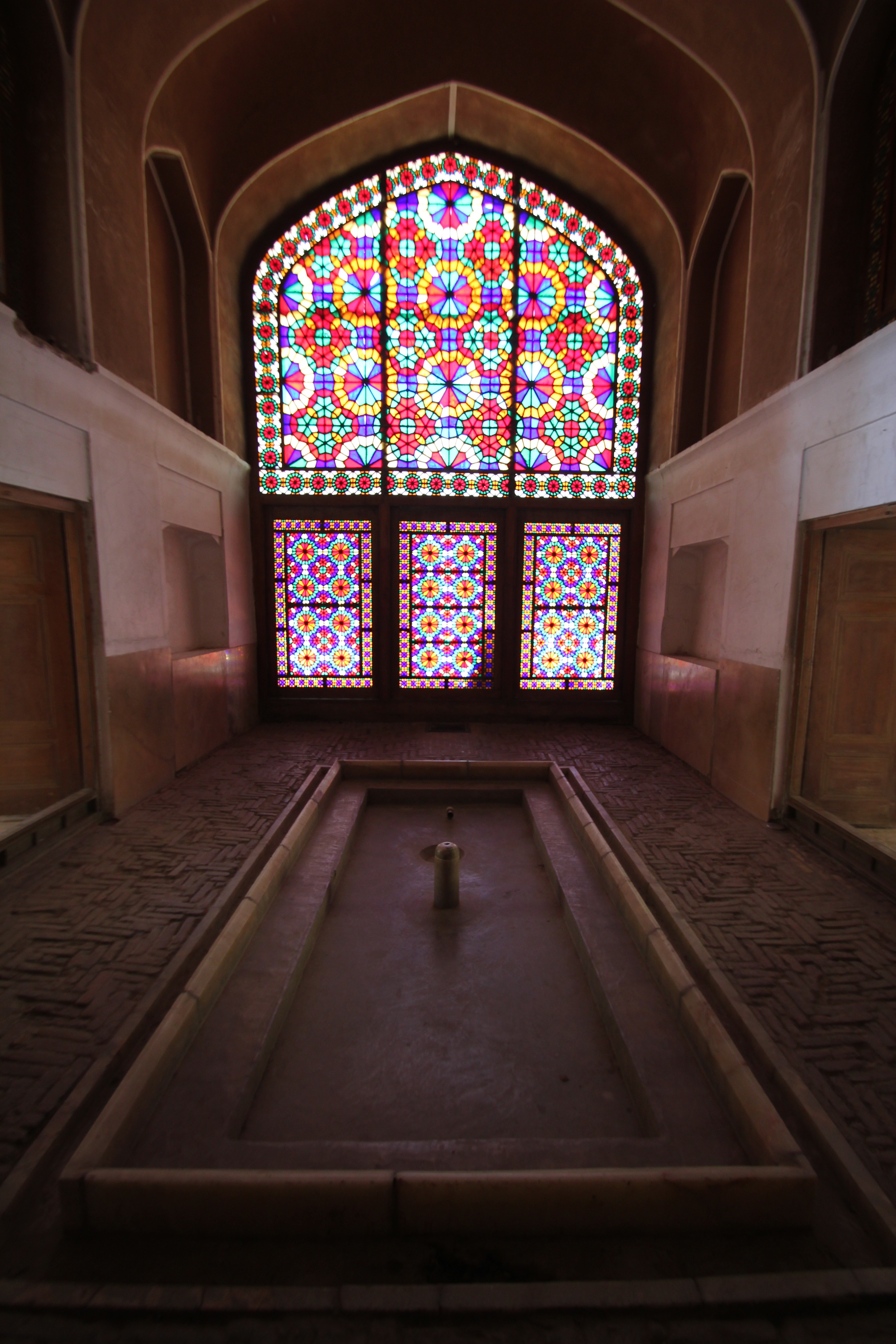 A window inside Dowlat Abad House in Yazd City.